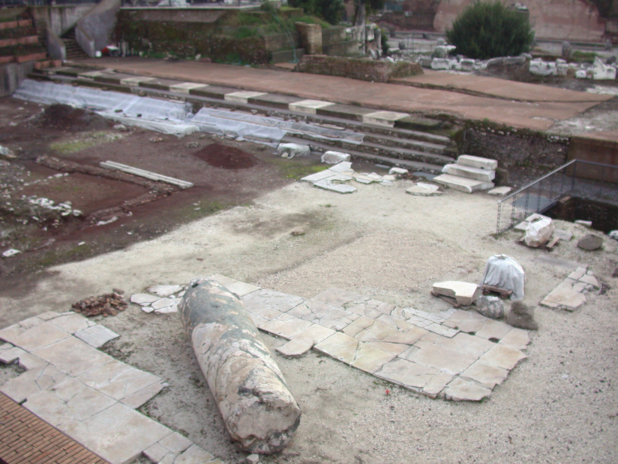 Rome, Pax temple (or Pax Forum): NW corner (Nerva Forum side). This area come to light during 2000 excavations. Personal photo (november 2005) by MM in it.wiki